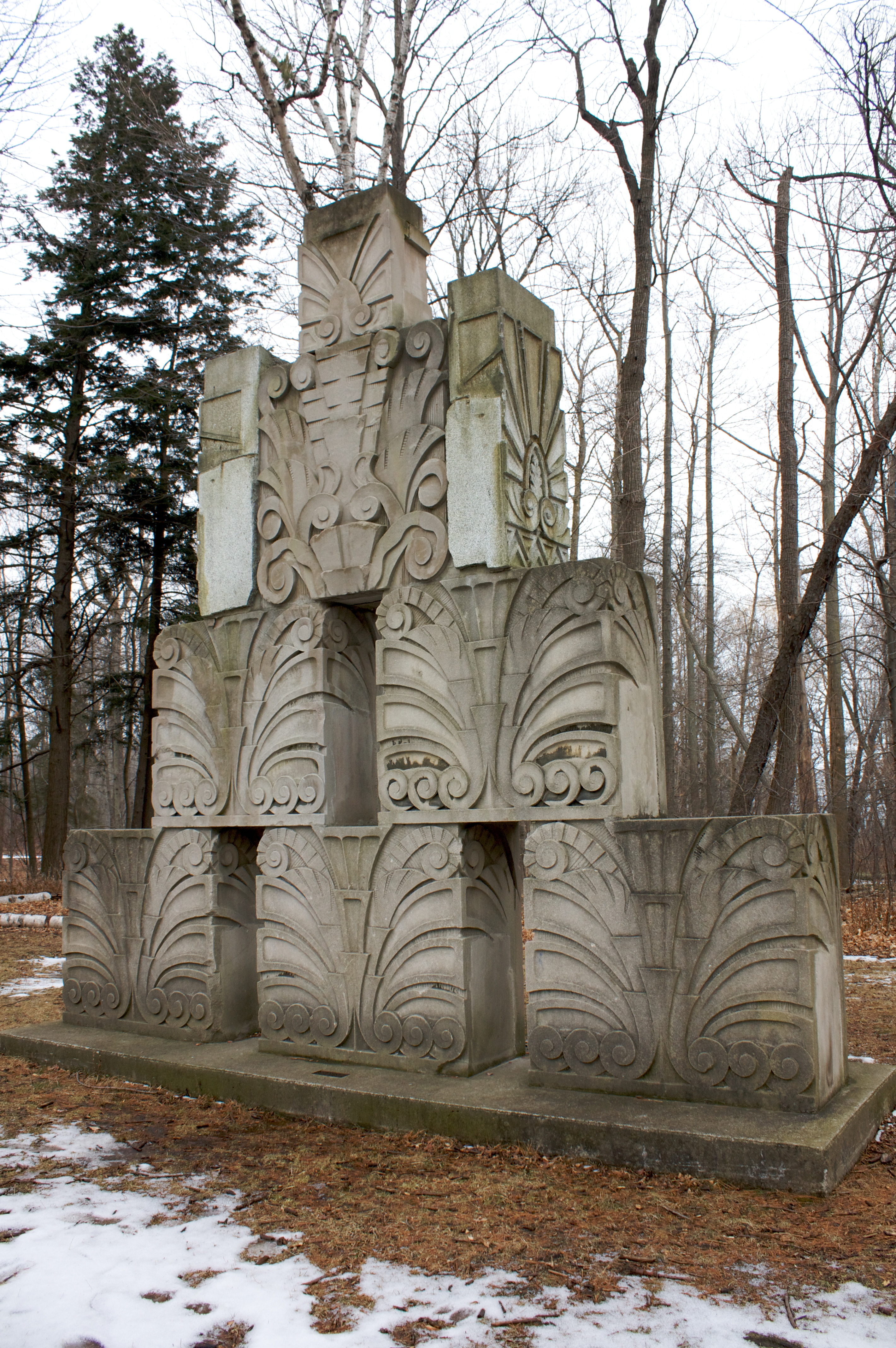 A pyramid made up of reliefs recovered from the demolition of the former Toronto Star building on King Street. Guild Park, Toronto, Canada.